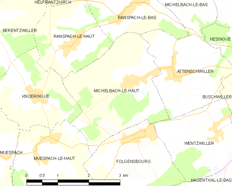 Map of French municipality